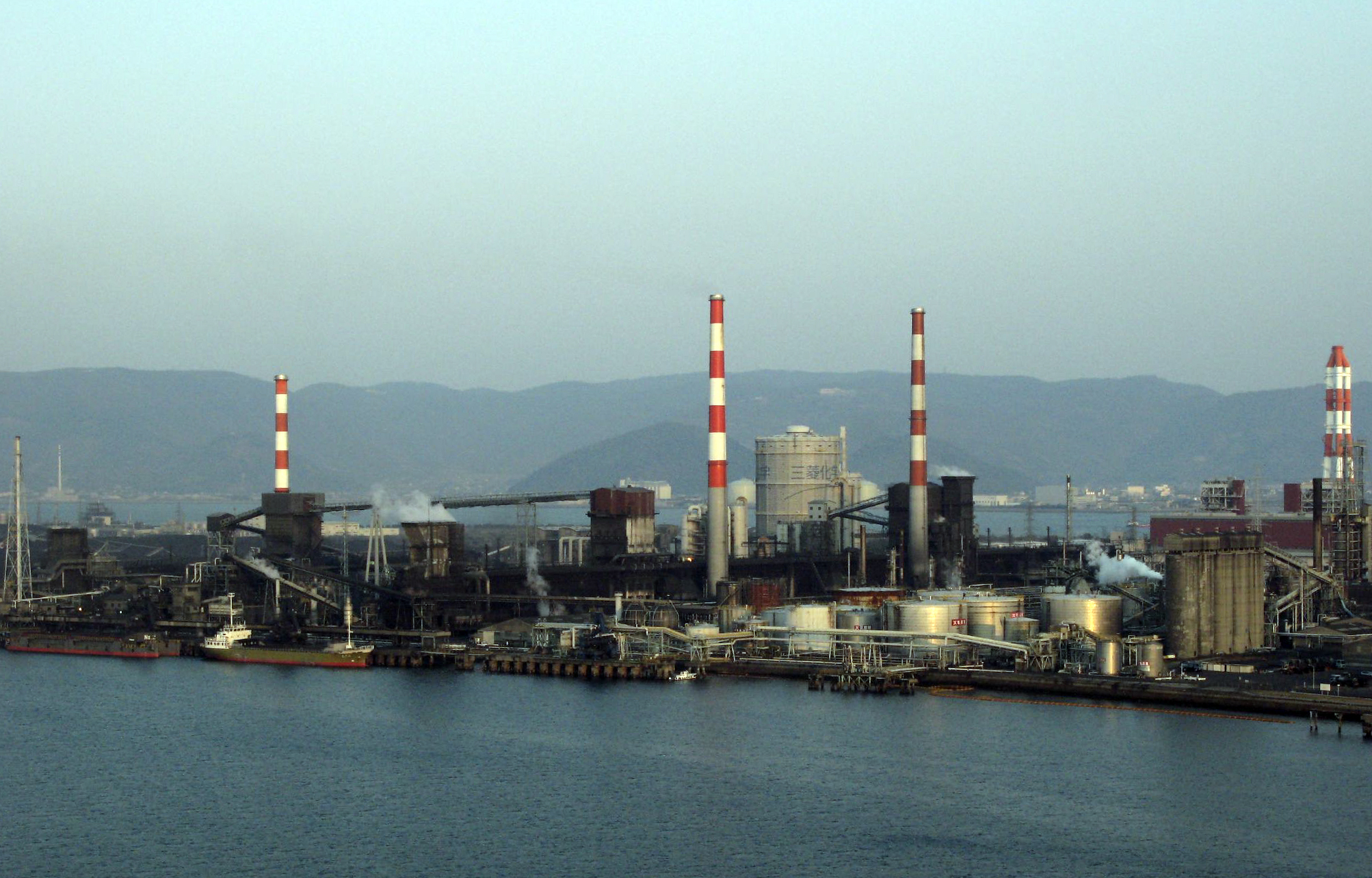 The factory of Mitsubishi Chemical at Sakaide, Kagawa, Japan.Canon PowerShot G7